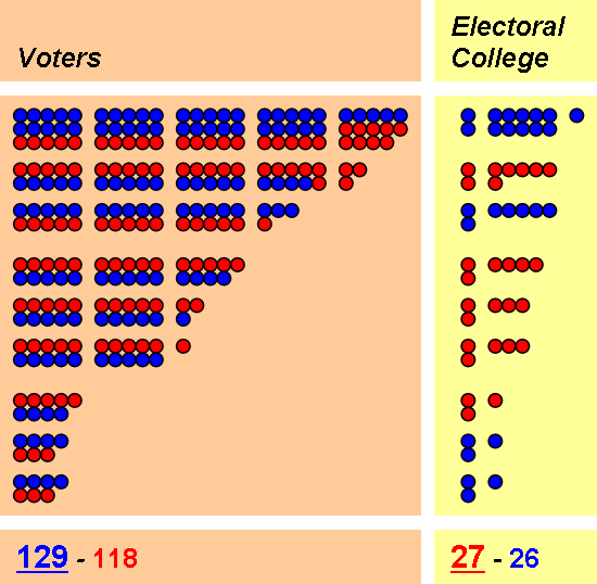 Graphic showing how the popular vote winner can lose the electoral vote.